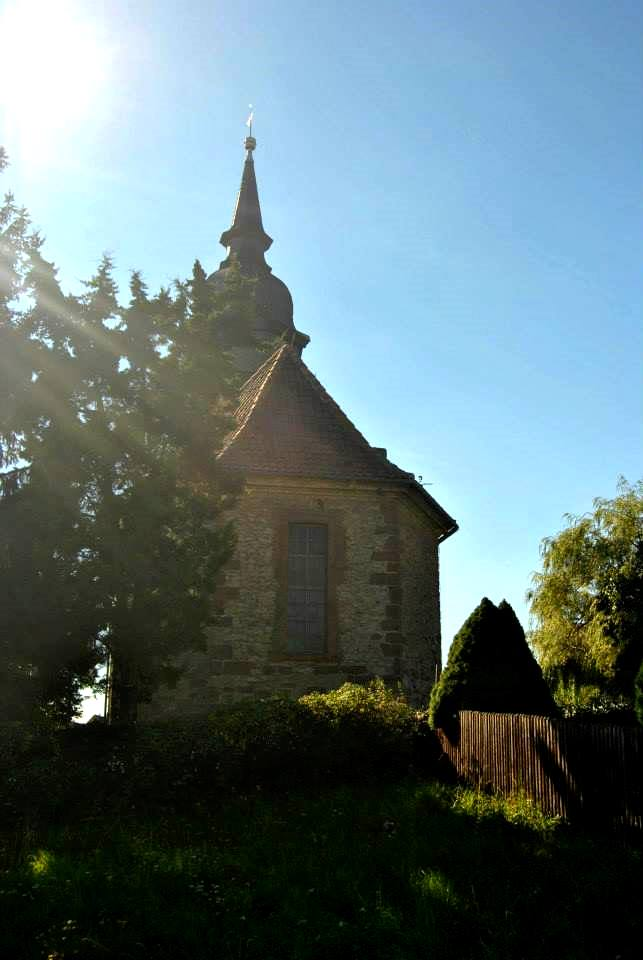 Dorfkirche in Mennewitz, Vorderseite